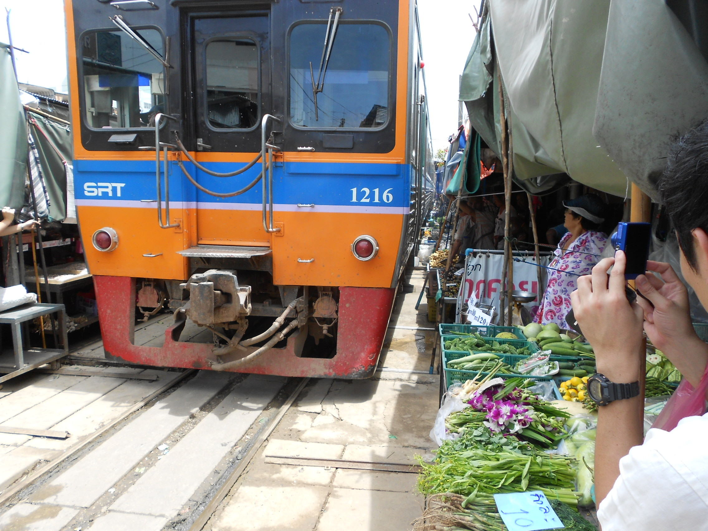 The Mahachai Mae Khlong Market Train...